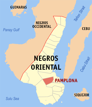 Map of Negros Oriental showing the location of Pamplona